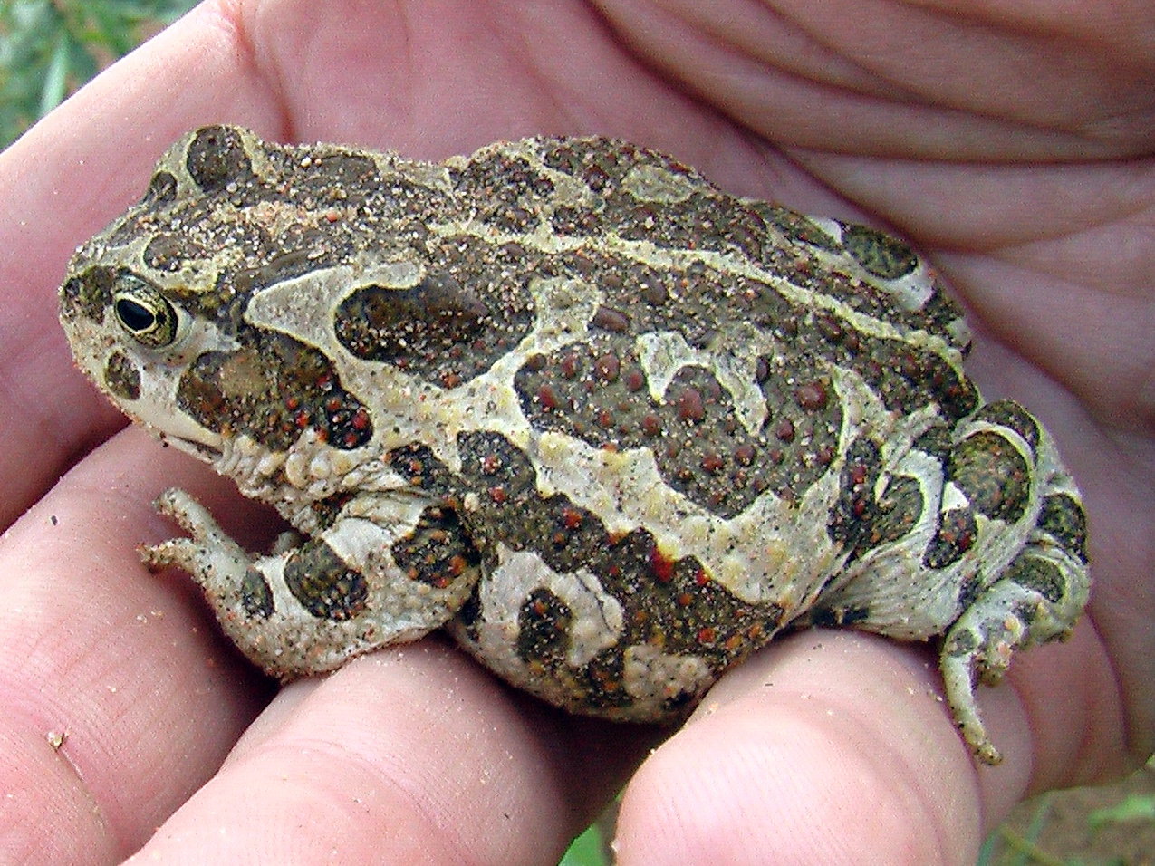 Bufo raddei Strauch, 1876 North coast of Orog Nuur lake, Bogd sum, Bayankhongor province, South Mongolia